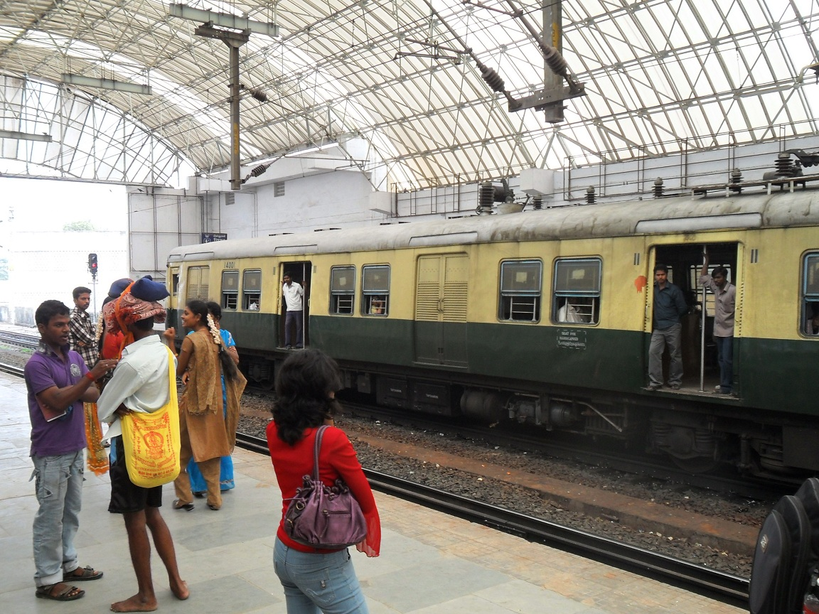 MRTS train on a station, Chennai (Madras) , India